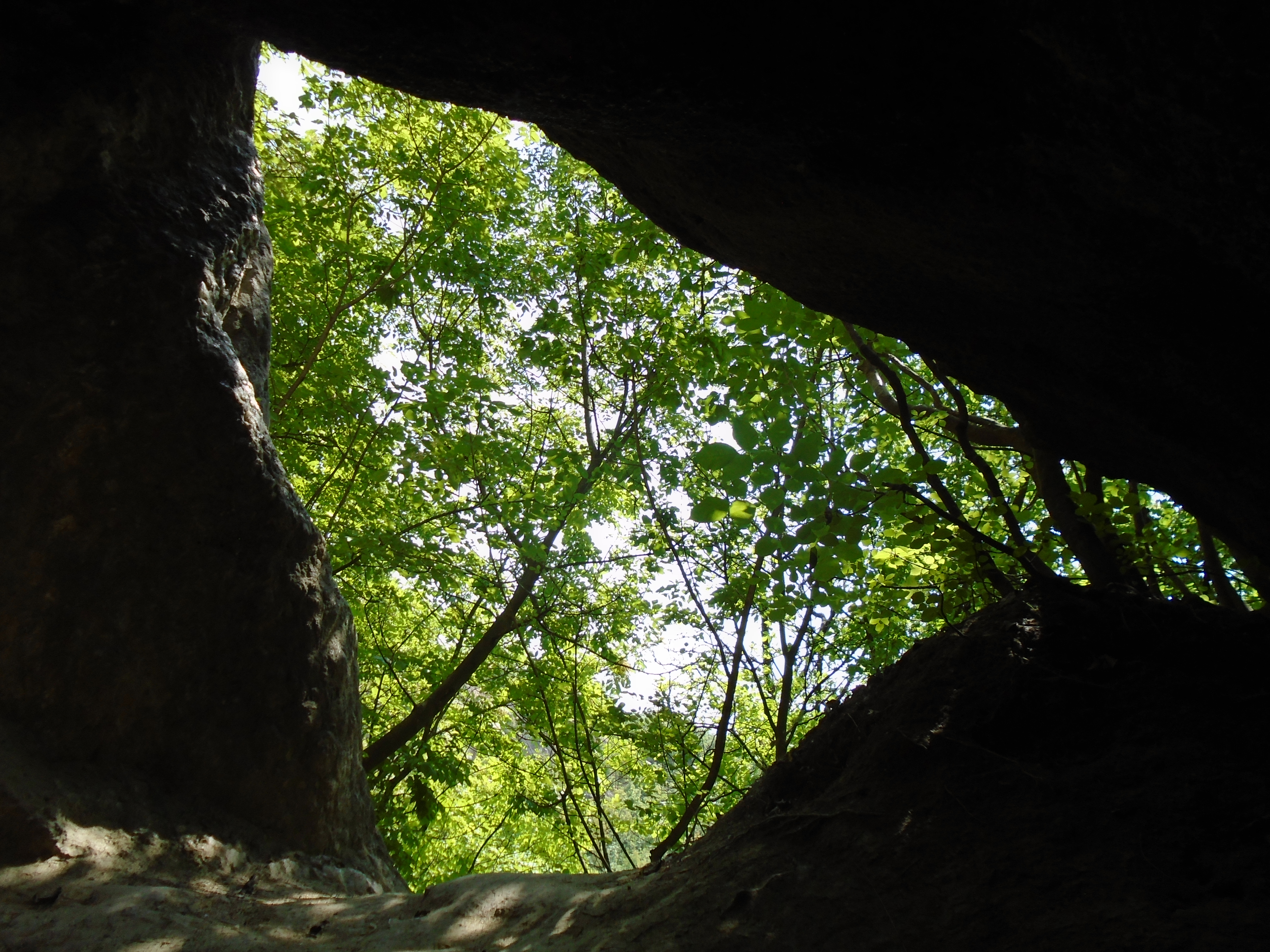 Barit Cave main entrance.